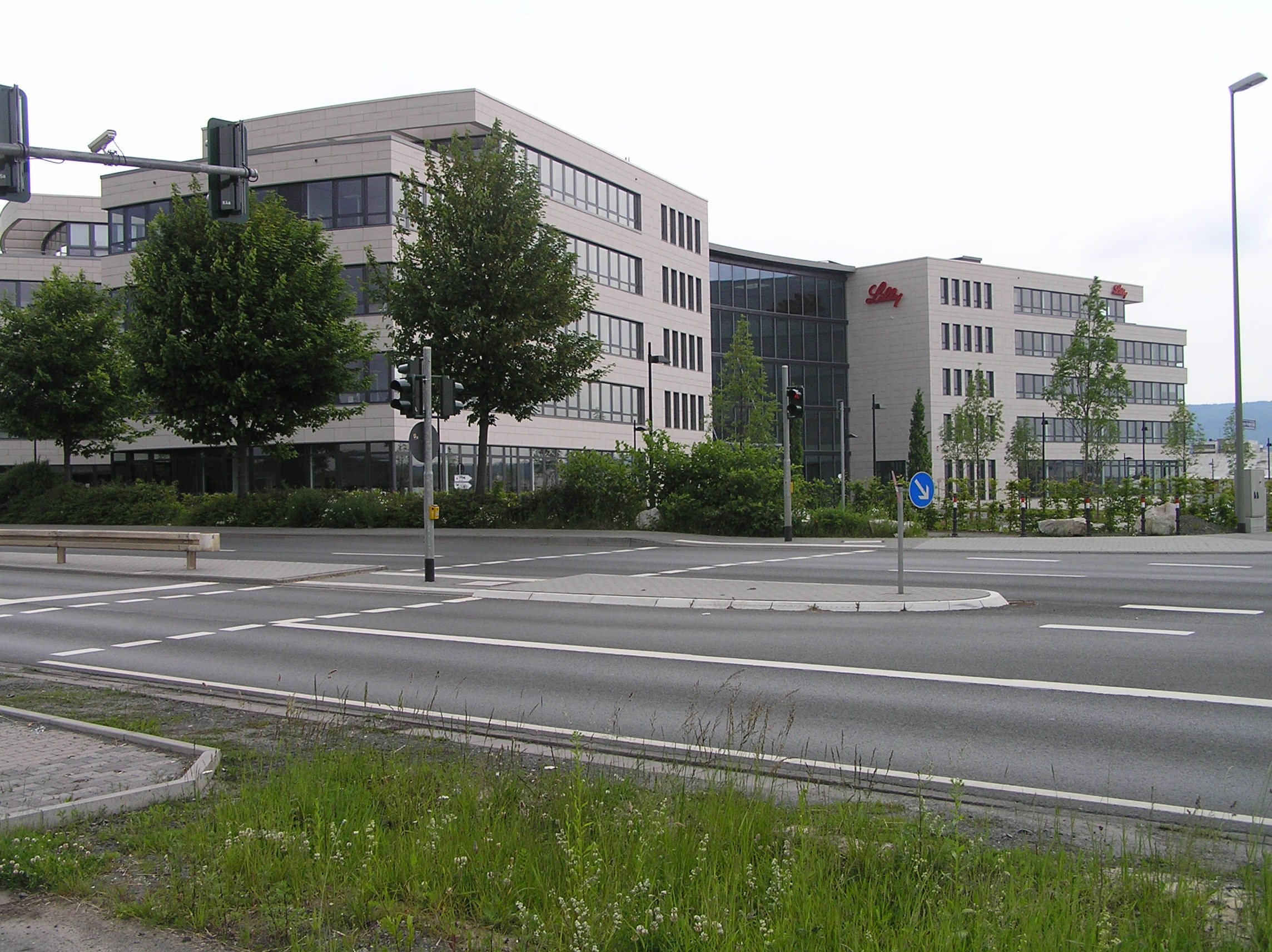 German headquarter of Eli Lilly & Companie in Bad Homburg vor der Höhe, Hesse, Germany